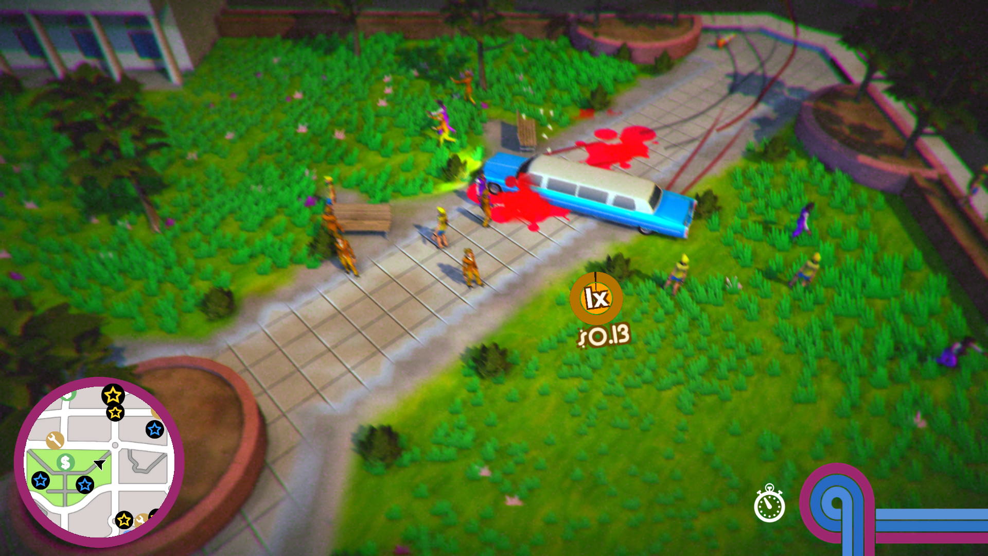 Roundabout screenshot. Released in 2014, the game was developed by No Goblin and is powered by Unity.